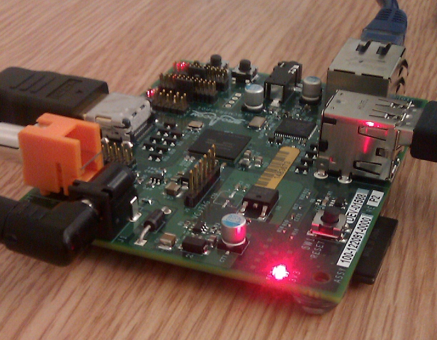 Extract from Raspberry Pi board at TransferSummit 2011